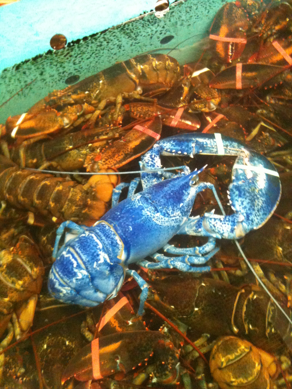 A blue lobster taken at the Lobster Trap fish market by Jane Carter.